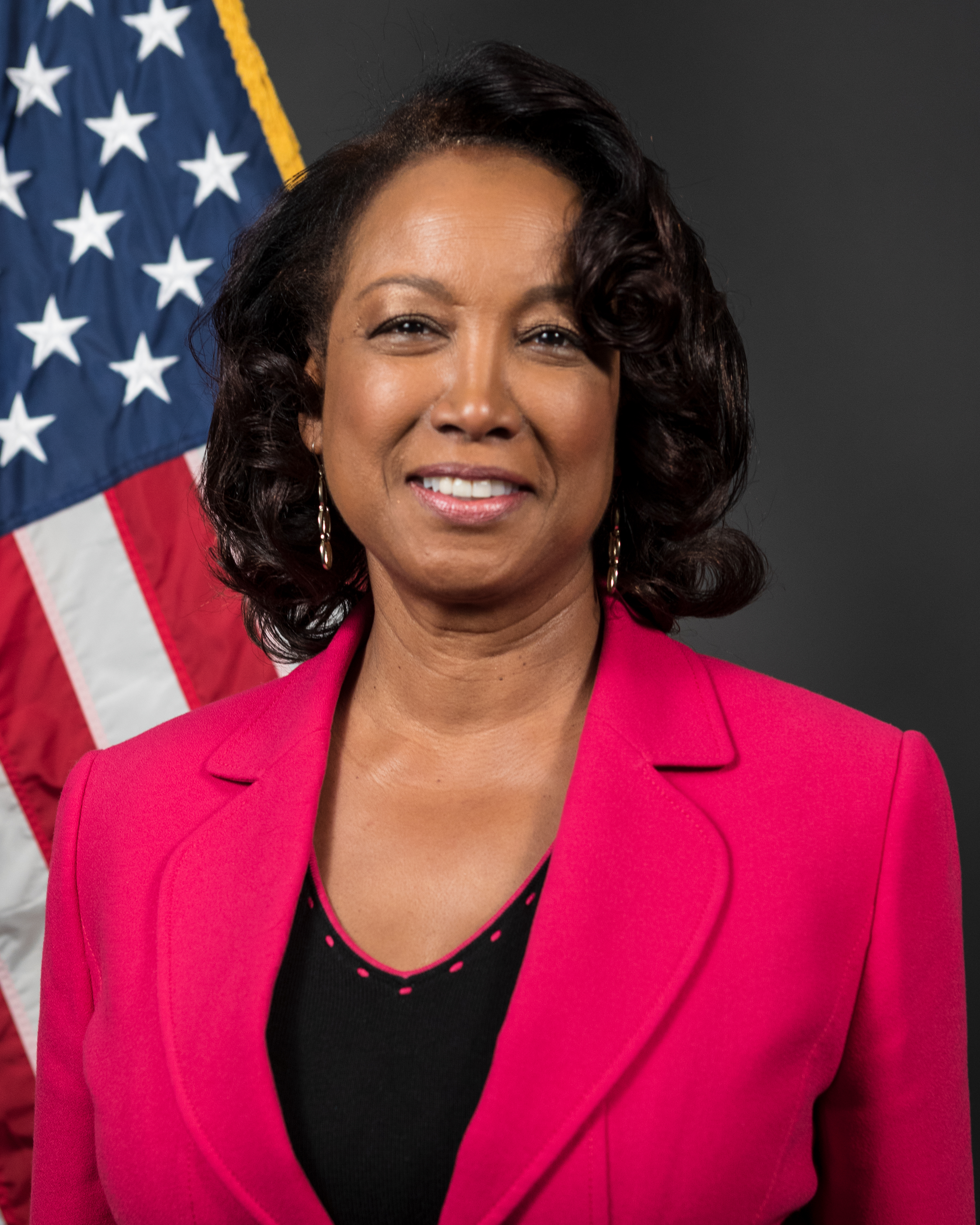 Jennifer Carroll, American Battle Monuments Commissioner official photo